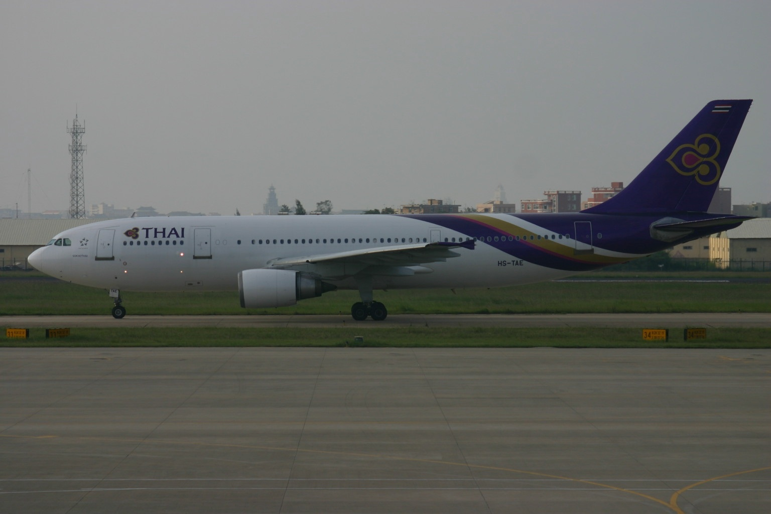 At Xiamen